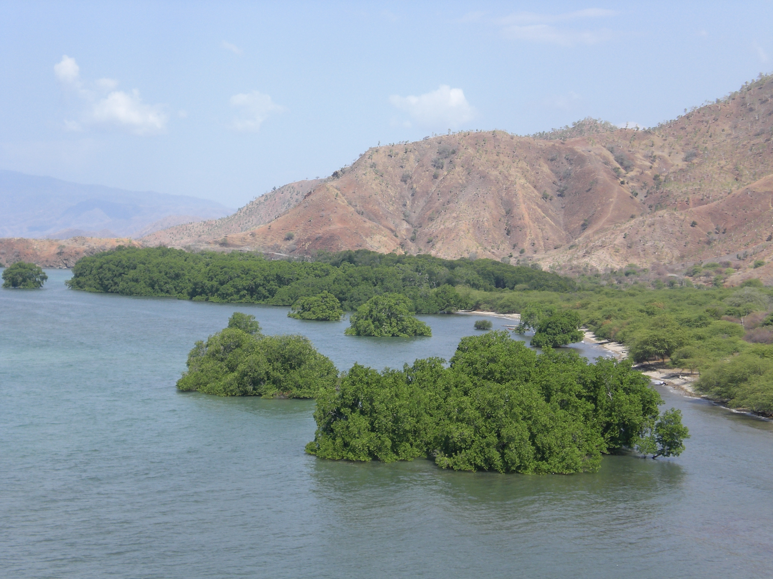 Mangroves in Dili distrikt/North Coast Timor-Leste